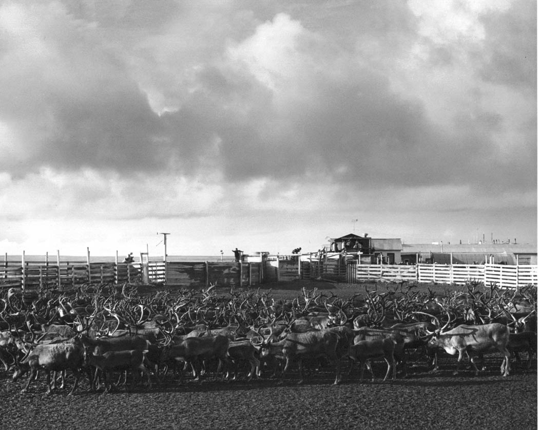 Herd of reindeer in a corral, against a big sky with turbulent clouds. .